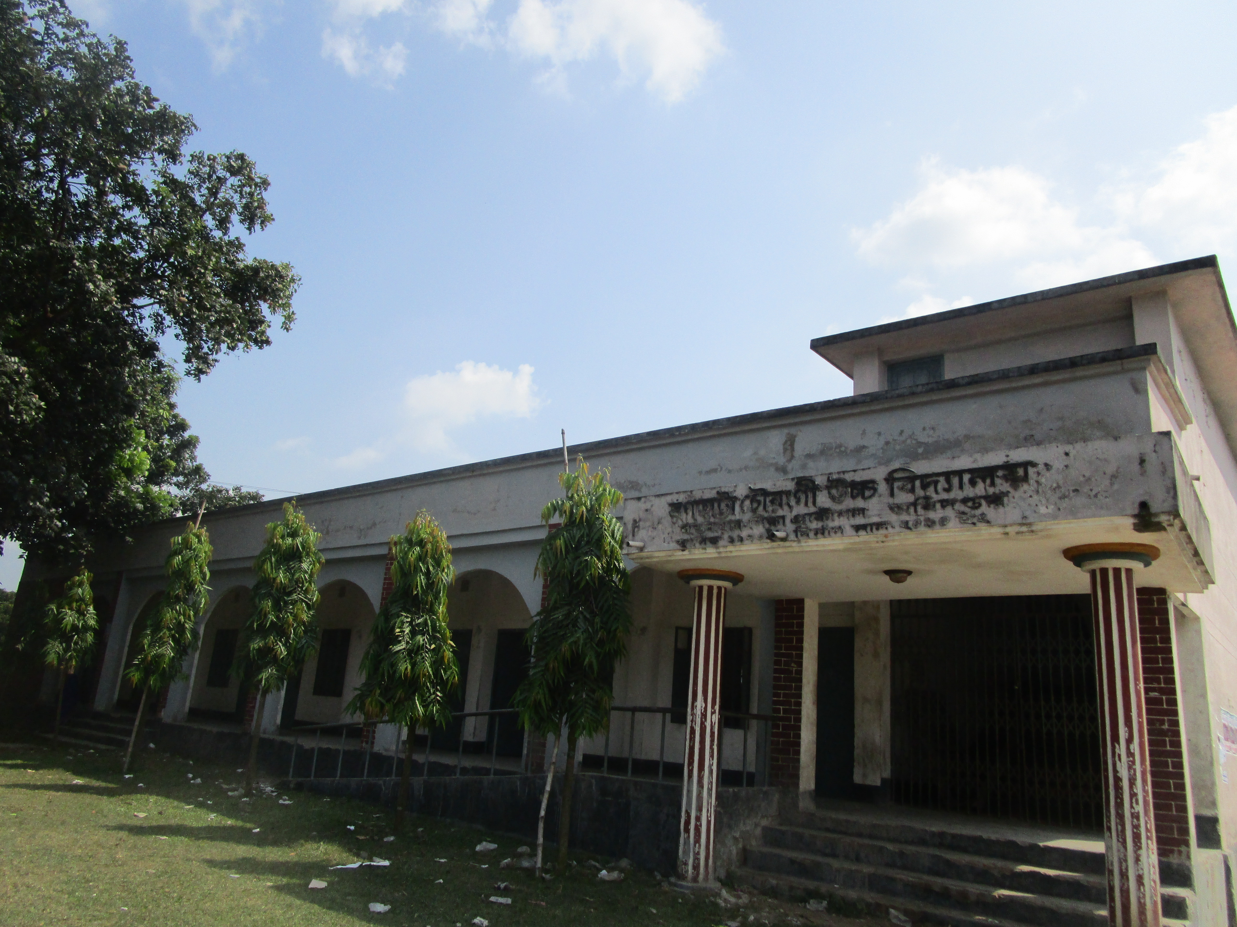 A building of Ranhatta Chourangi High School.